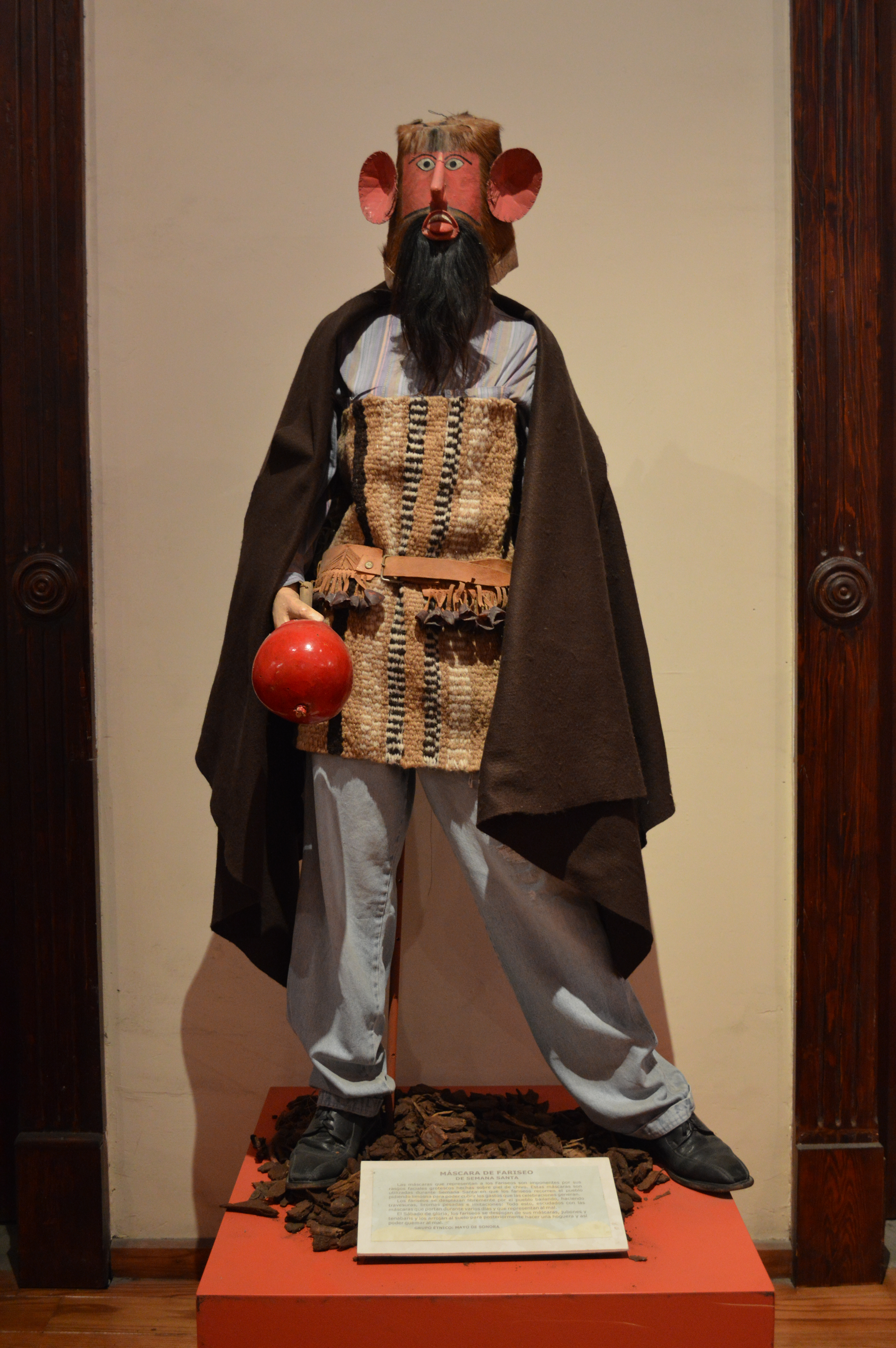 Mannequin of a Mayo (from Sonora) Fariseo dancer with mask at the Museo Nacional de la Máscara in San Luis Potosí, Mexico